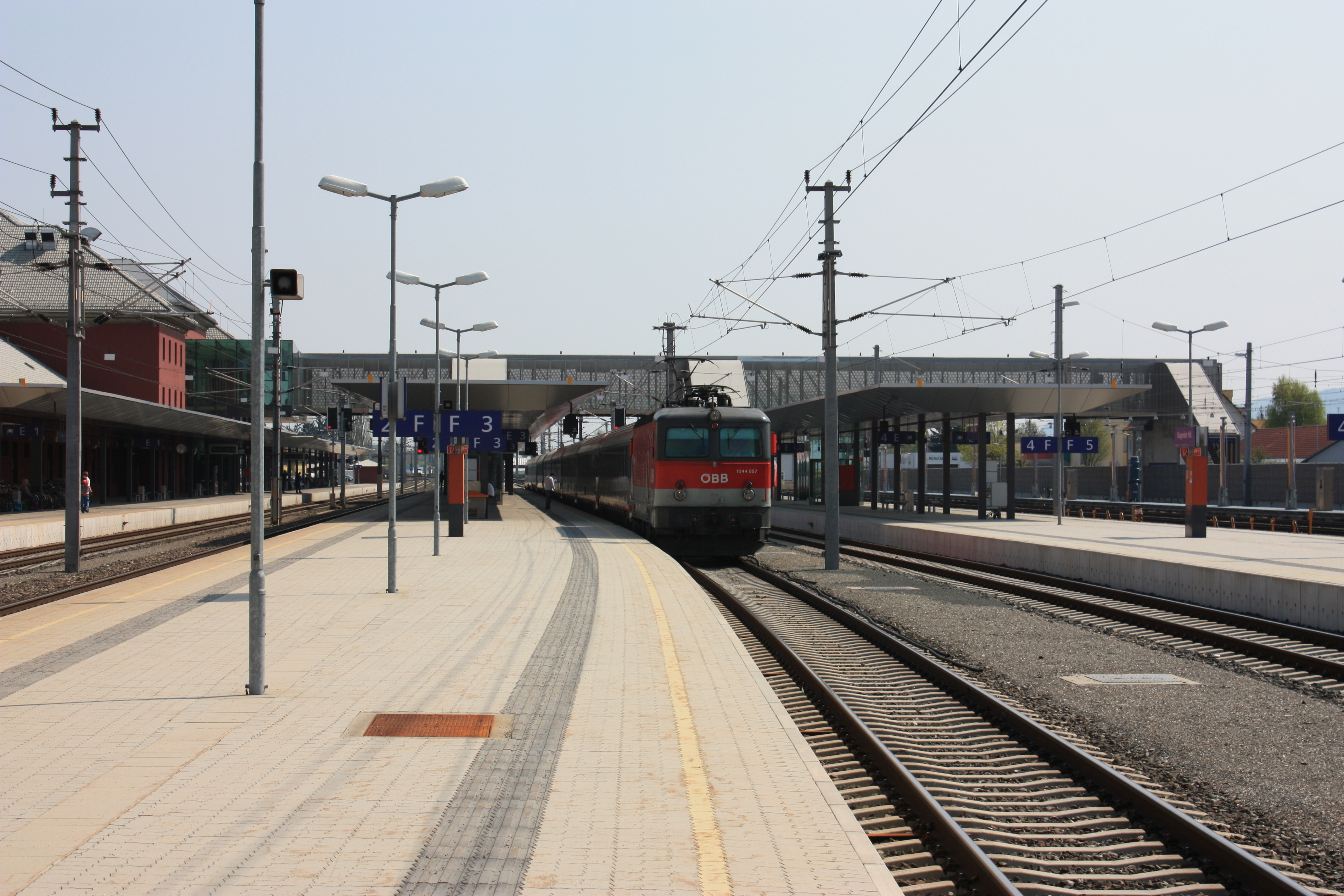 Gateway to the train platforms Locality:Hauptbahnhof Community:Klagenfurt